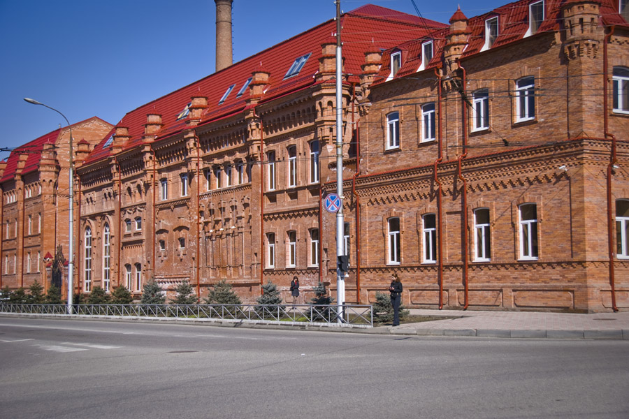 Brewery in Maikop. Since 1882.